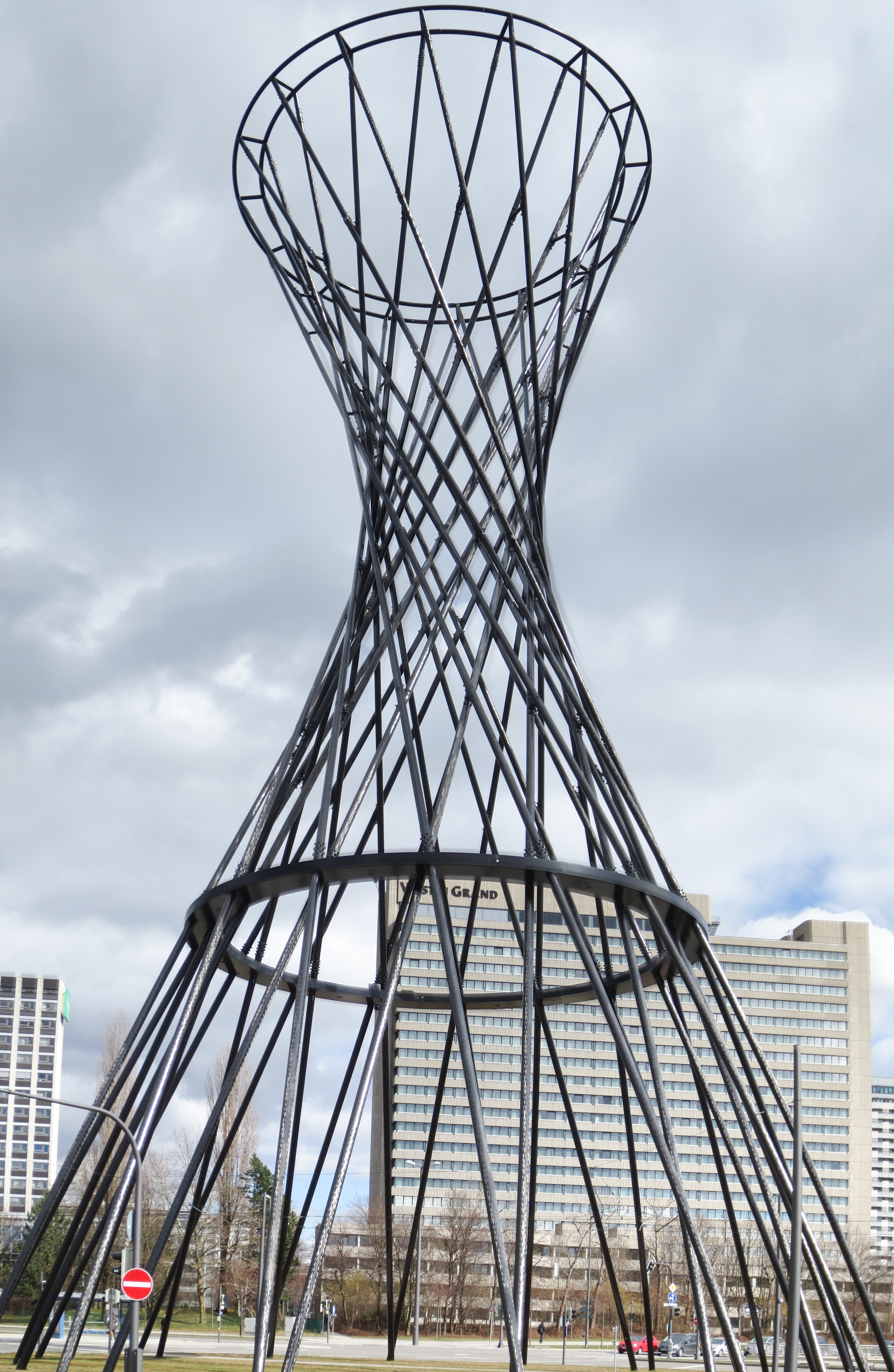 Mae West from Rita McBride in Munich. View to the hypebolic tower. A panoramic combination of three pictures.